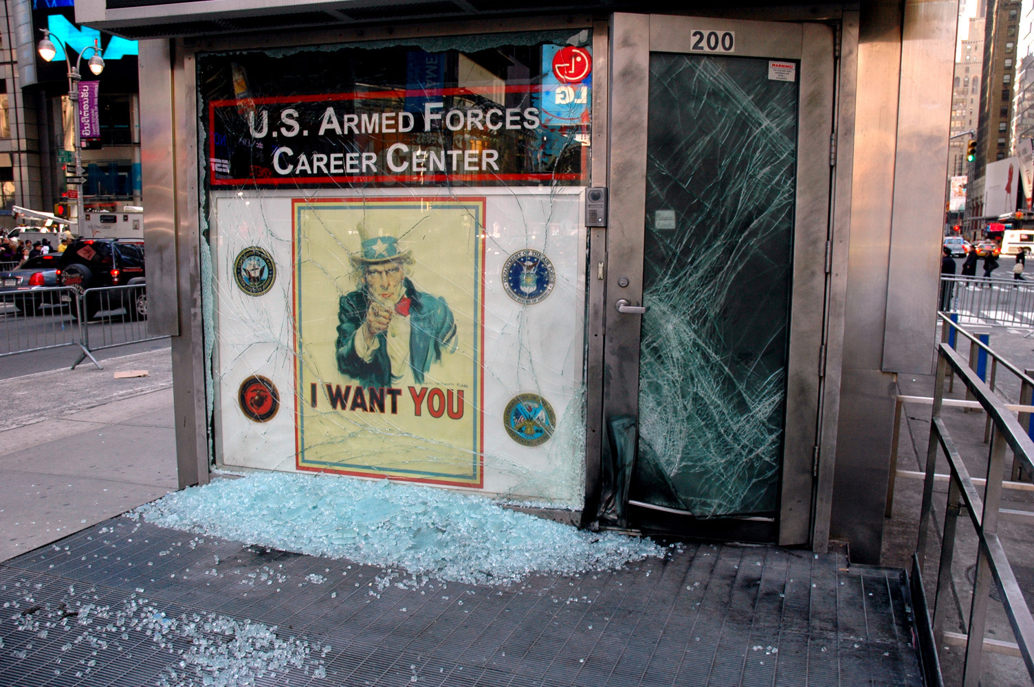 Aftermath of the 2008 Times Square bombing